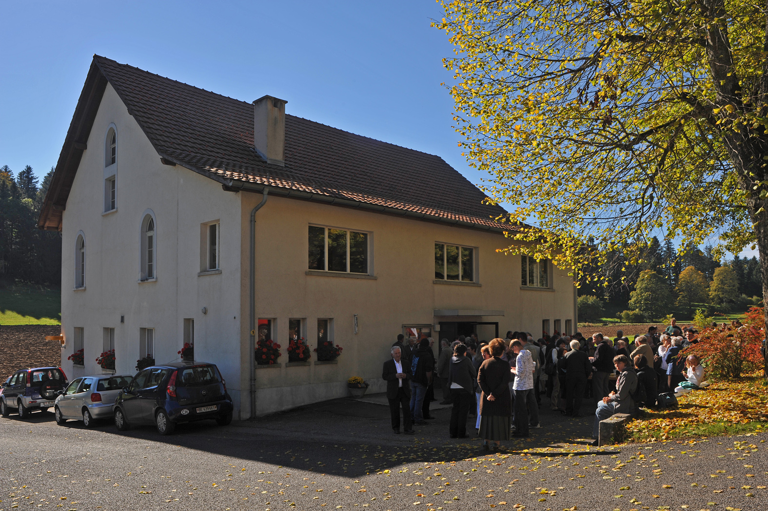 Library of the „Swiss Mennonite Conference“ in Le Jean Guy above Corgémont; Bern, Switzerland.